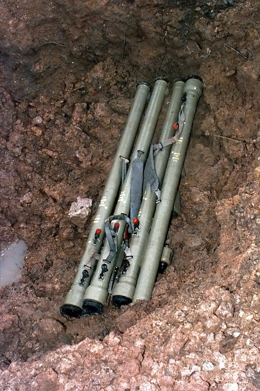 Four confiscated Serbian SA-7B MANPADS lie in a hole in the ground awaiting destruction by members of the 61st Ordnance Company (EOD) at a site near Route Delaware on the Zone of Separation (ZOS) in Bosnia-Herzegovina.